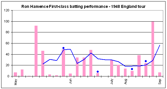 FC batting chart for Ron Hamence during the 1948 tour of England. Blue line is an average for five most recent innings, blue dots are not outs. Bars are runs scored. Pink for FC, red for Tests